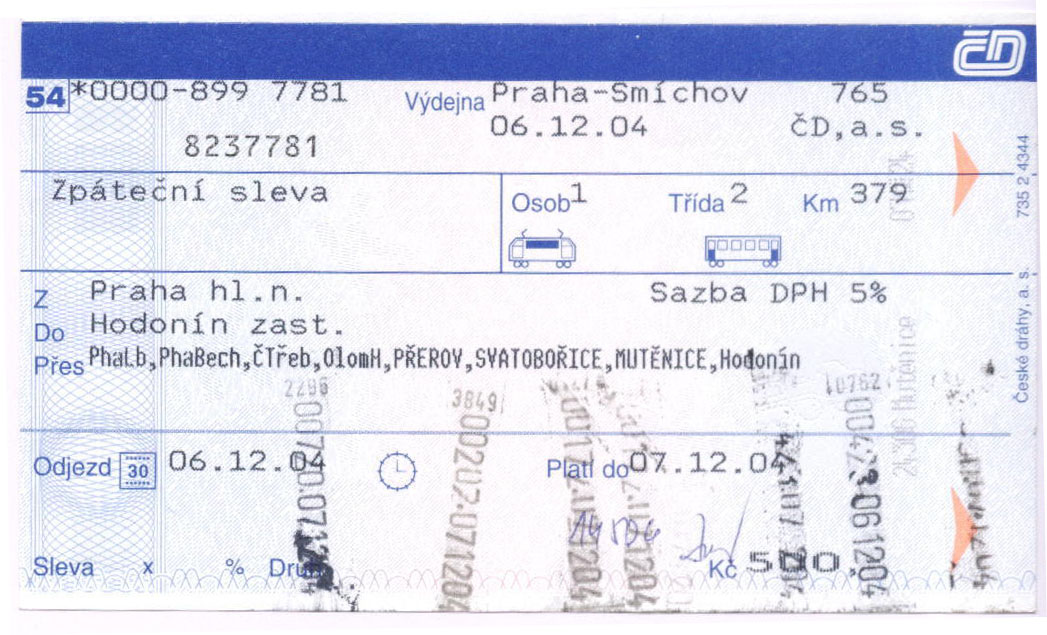 Train ticket of České dráhy, a.s. (national rail carrier of the Czech Republic) from Praha hl.n. to Hodonín zastávka. Valid for a round trip (there and back) with departure on December 6, 2004. The destination (Hodonín zastávka on Hodonín - Holíč nad Moravou line) as well a part of the route (Svatobořice on Kyjov - Mutěnice line) could only be reached by train until December 10, 2004 - regular passenger trains have been suspended on those lines thereafter. Computer-generated tickets and seat reservations on this form have been issued in the Czech Republic since 1995.